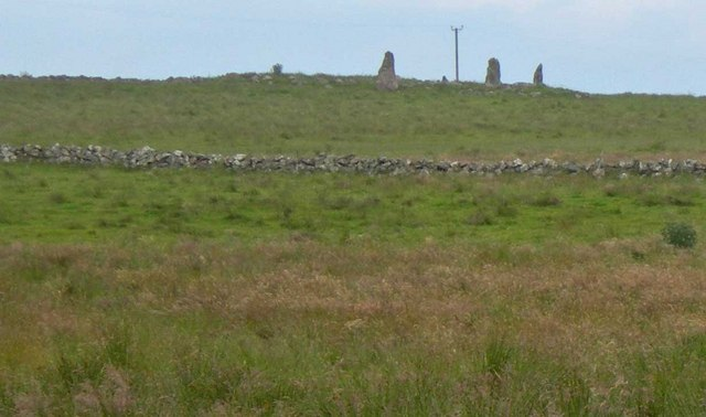 Bourtreebush Stone Circle, Kincardineshire